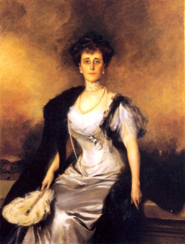 Portrait of Ruth T. Livingston Mills (1855–1920), wife of Ogden Mills, by Francois Glamony